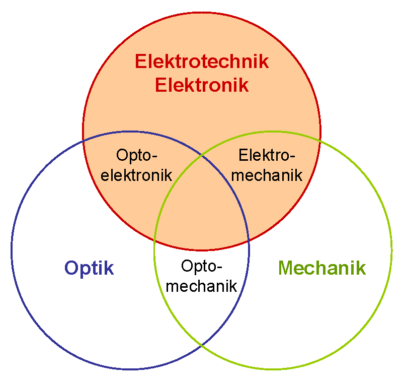 Components of electronic systems